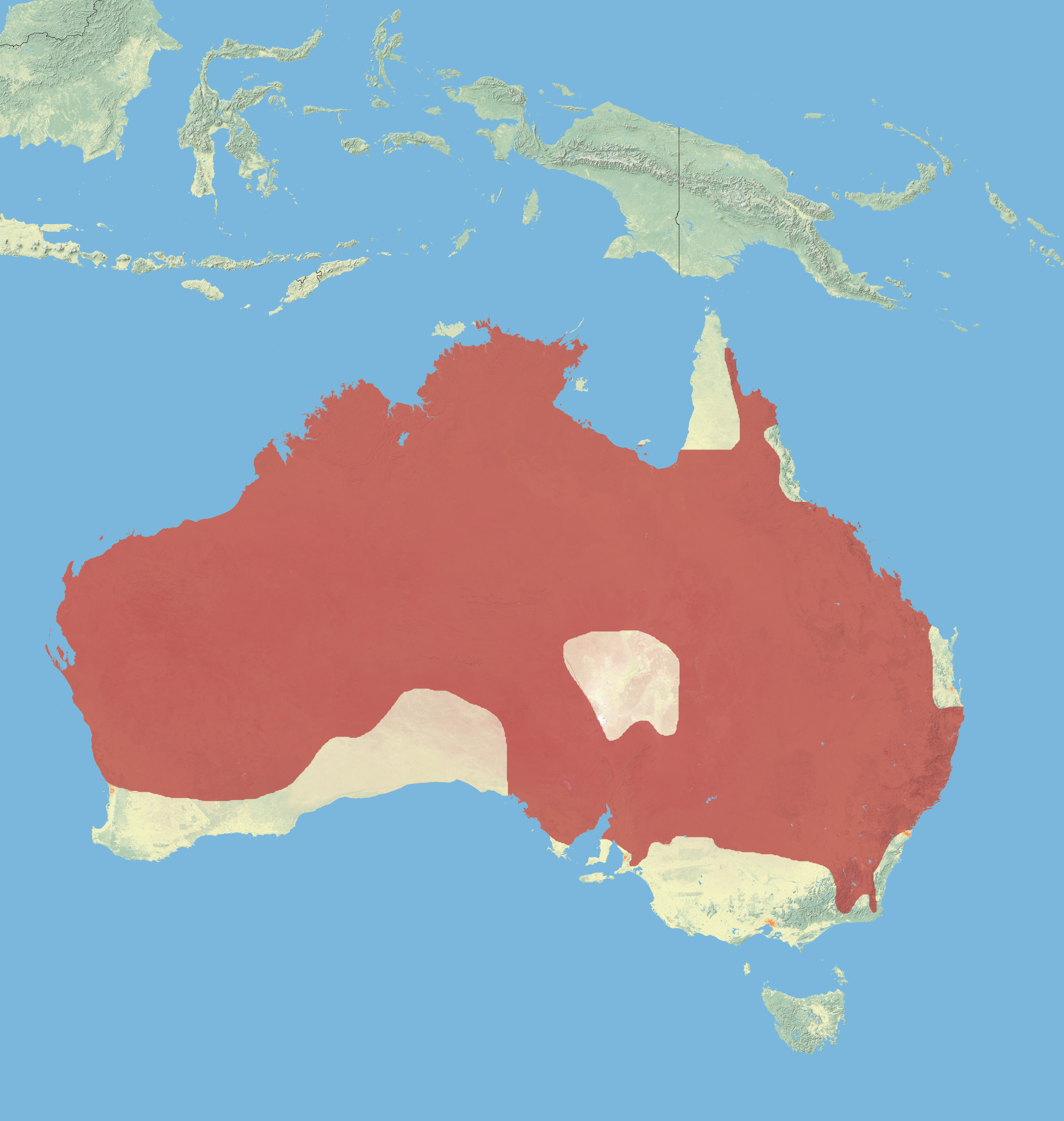 The Distribution of the Wallaroo According to the IUCN